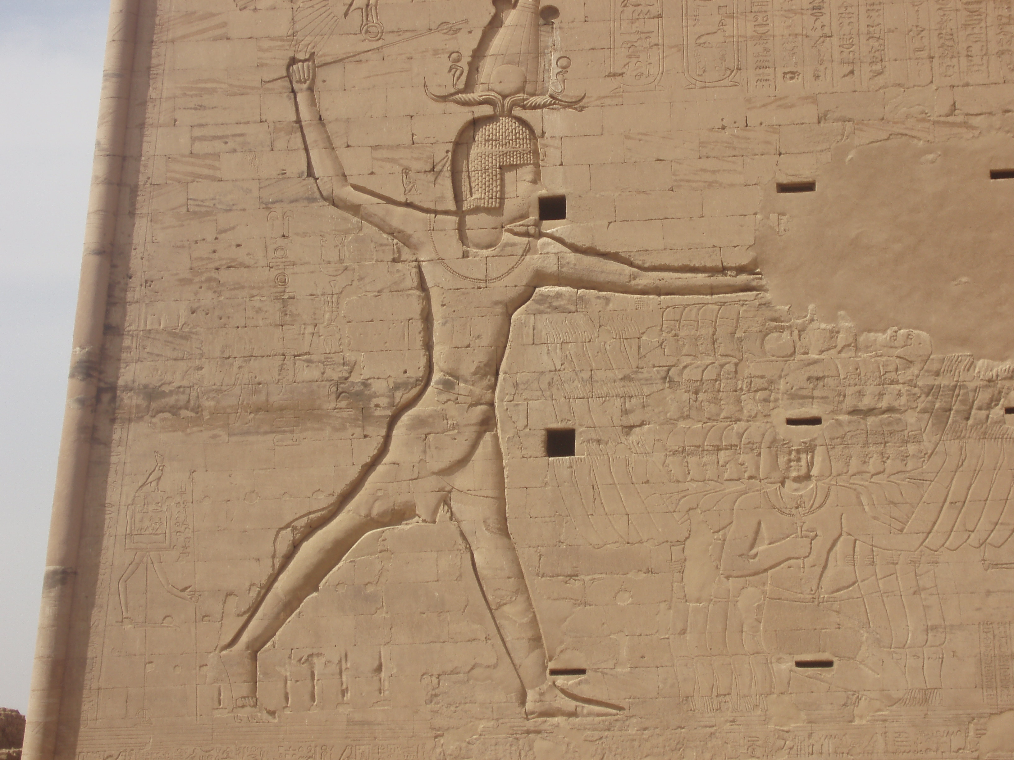 Ptolemy XII smashing enemies with a mace. Relief from the first pylon in the temple at Edfu.